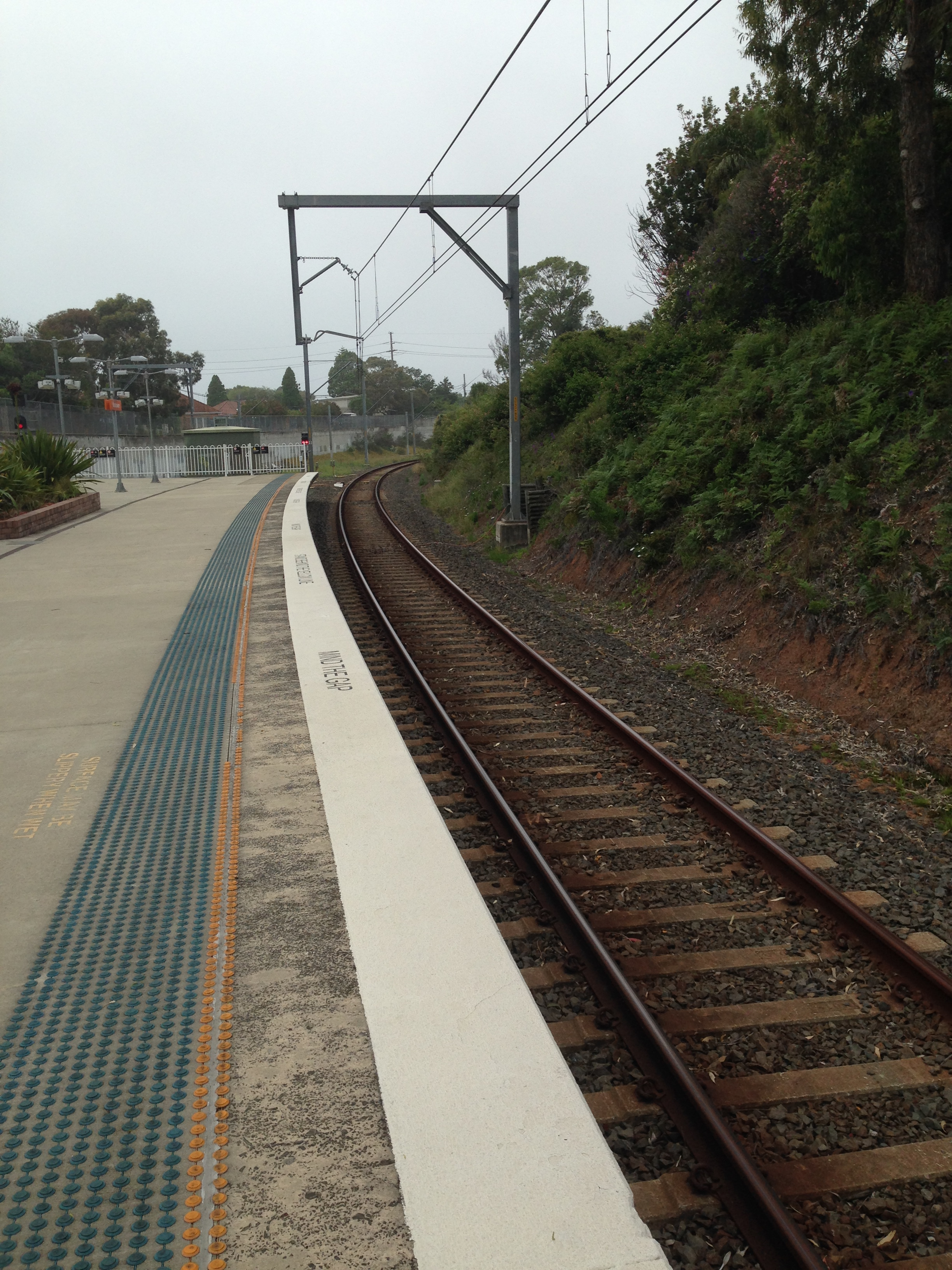 East direction of Woolooware train station